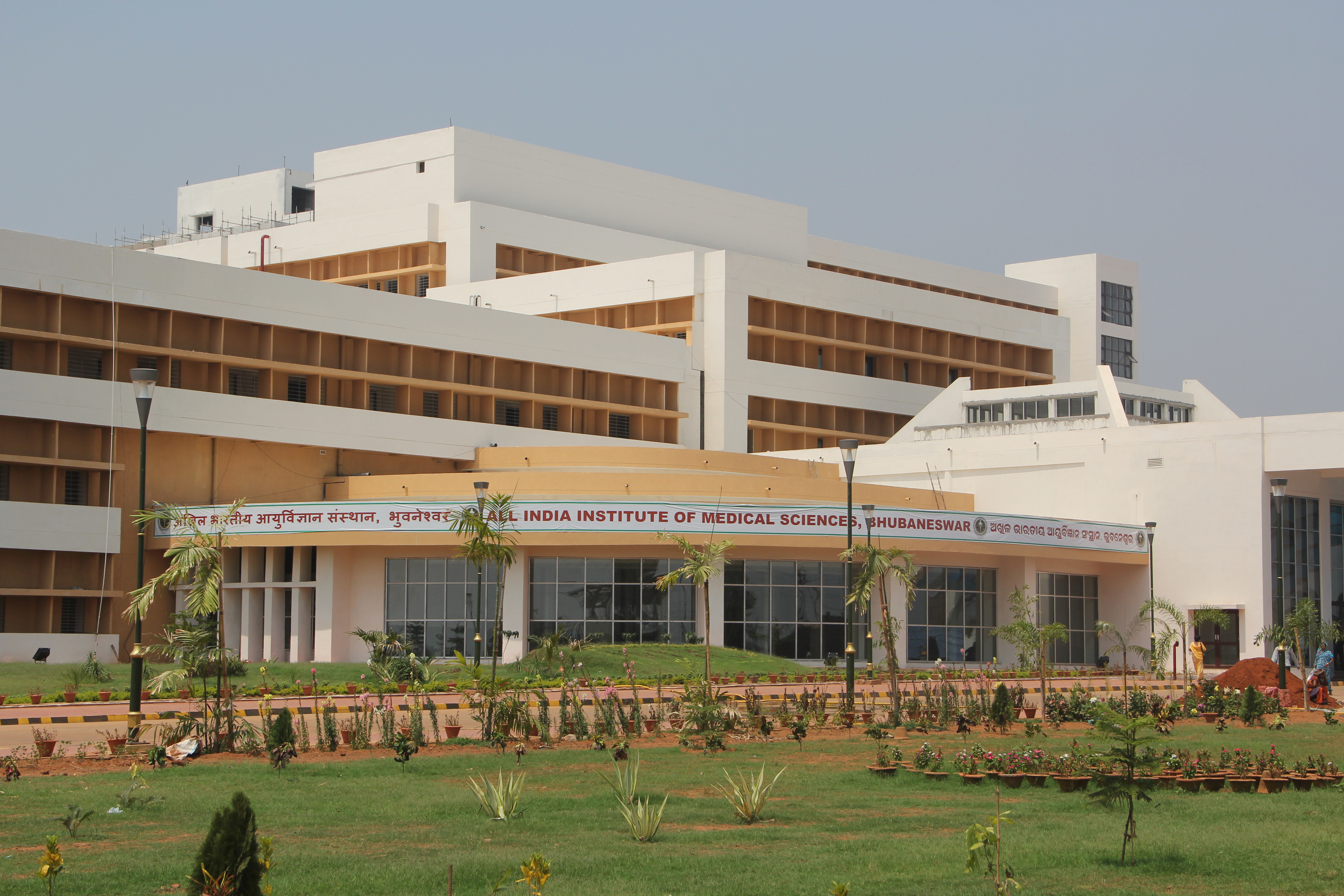 ଓଡ଼ିଆ: All India Institute of Medical Sciences, Bhubaneswar Sijua, Patrapada, Bhubaneswar, Odisha 751019